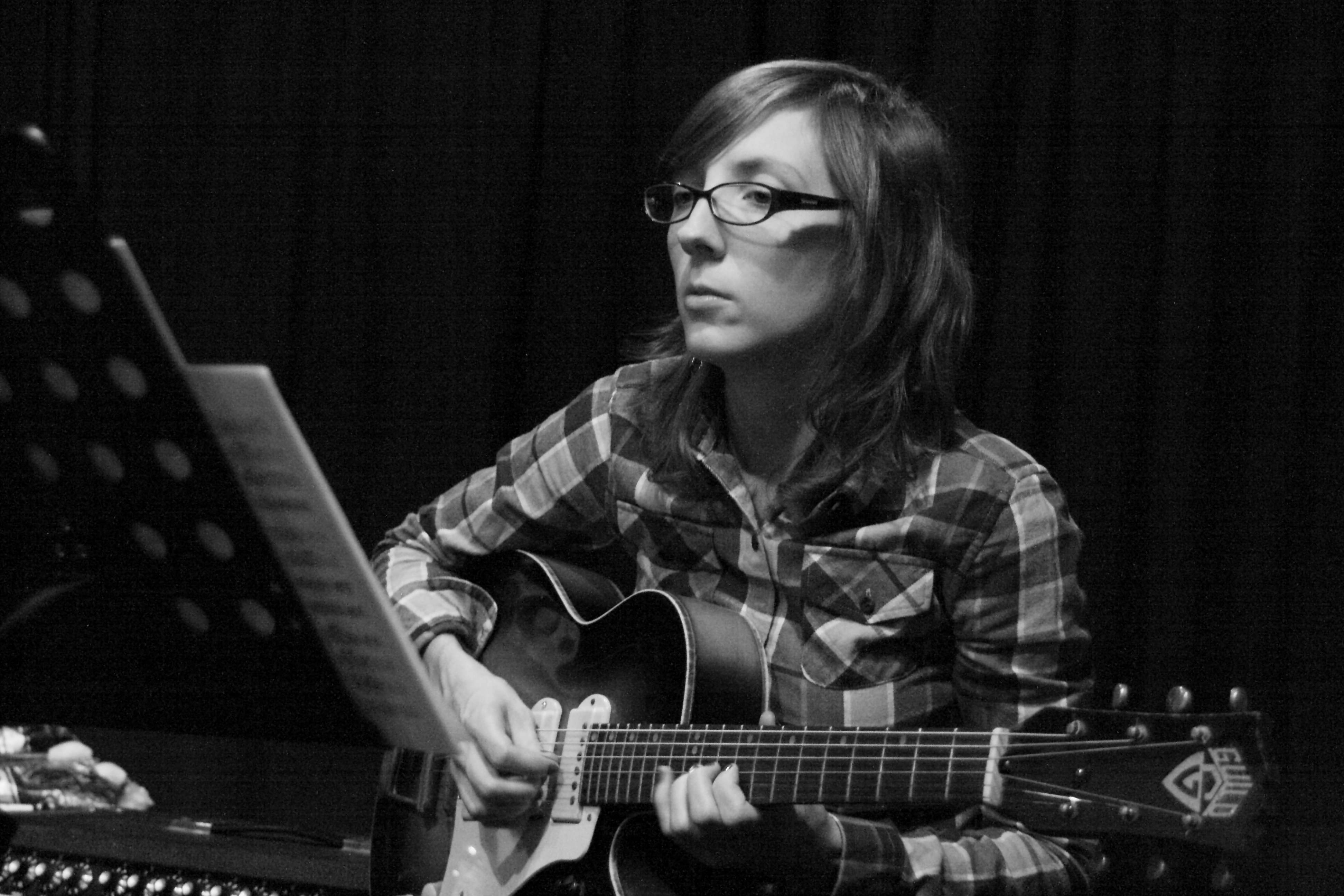 Mary Halvorson with Anti-House at Club W71, Weikersheim.